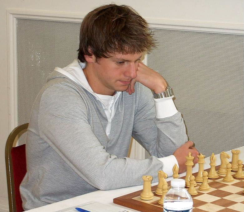 IM Stephen Gordon - Round 7 of 4th EU Individual Open Ch., Liverpool World Museum, William Brown Street